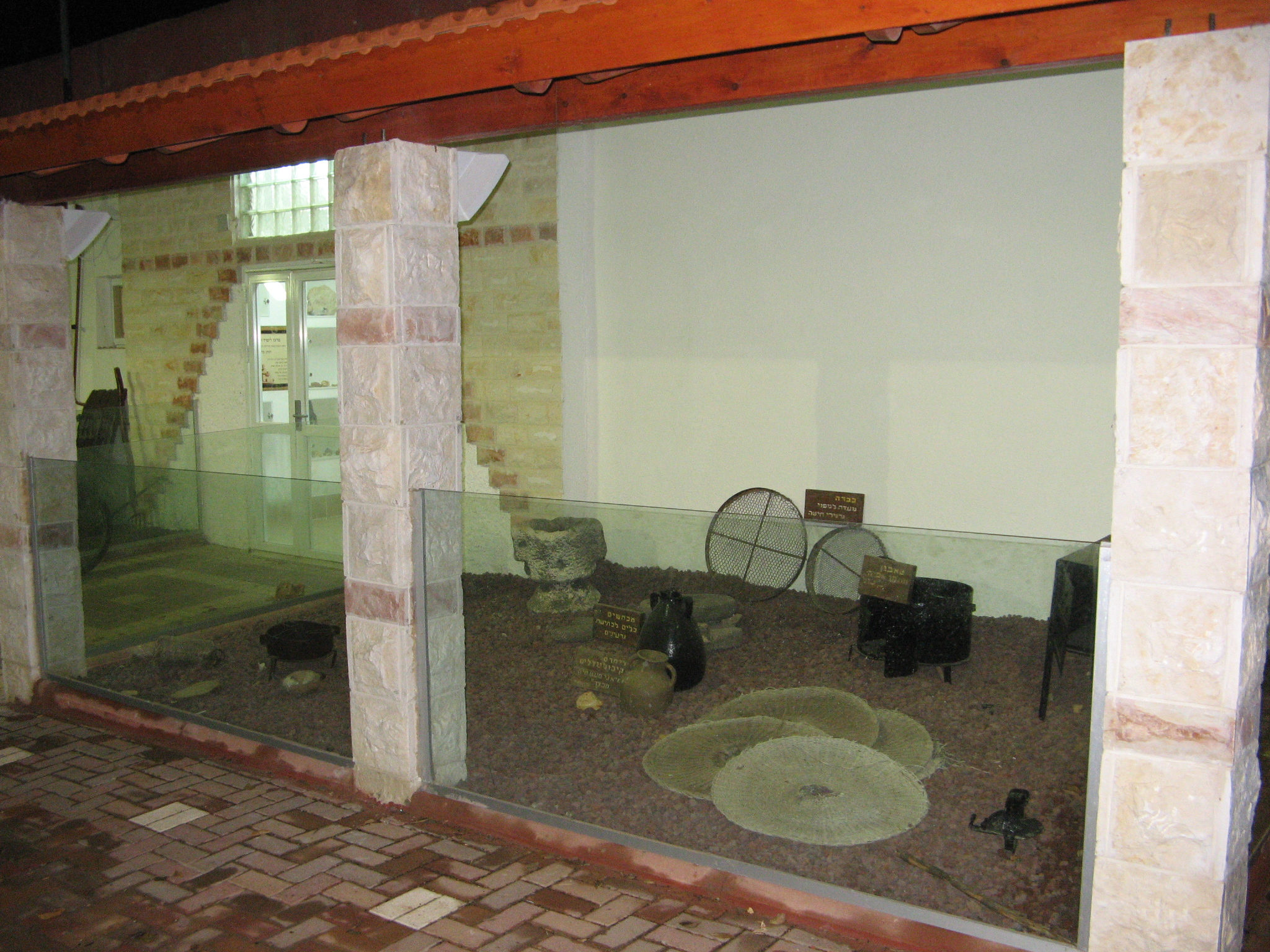 Museum of Ofra, outdoor display